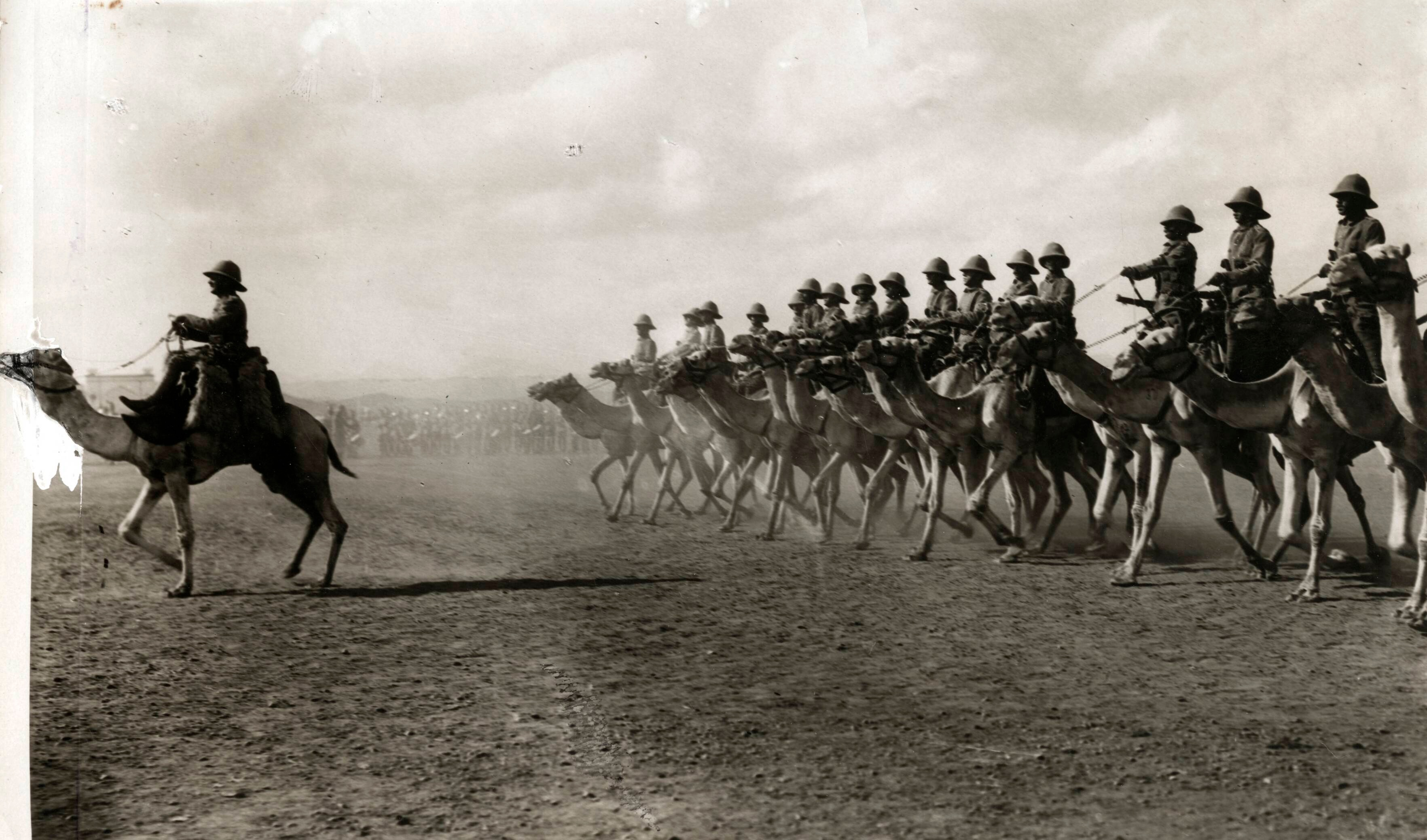 English army, cavalry. Corps English camel troopers. In 1913, between Berbera and Odwein in Somalië, a group of English camel troopers was attacked by 2000 dervishes. There were 50 fatalities and casualties among the English. Hebt u meer informatie over deze foto, laat het ons weten. Laat een reactie achter (als u ingelogd bent bij Flickr) of stuur een mailtje naar: Please help us gain more knowledge on the content of our collection by simply adding a comment with information. If you do not wish to log in, you can write an e-mail to: Meer foto’s van Spaarnestad Photo zijn te vinden op onze beeldbank